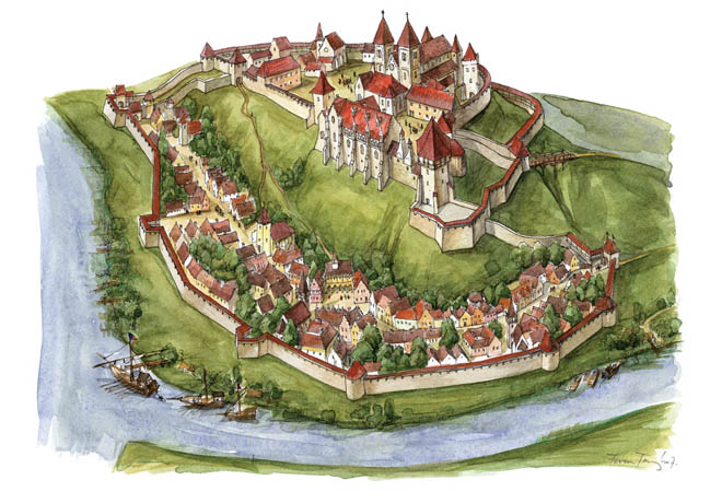 Esztergom castle